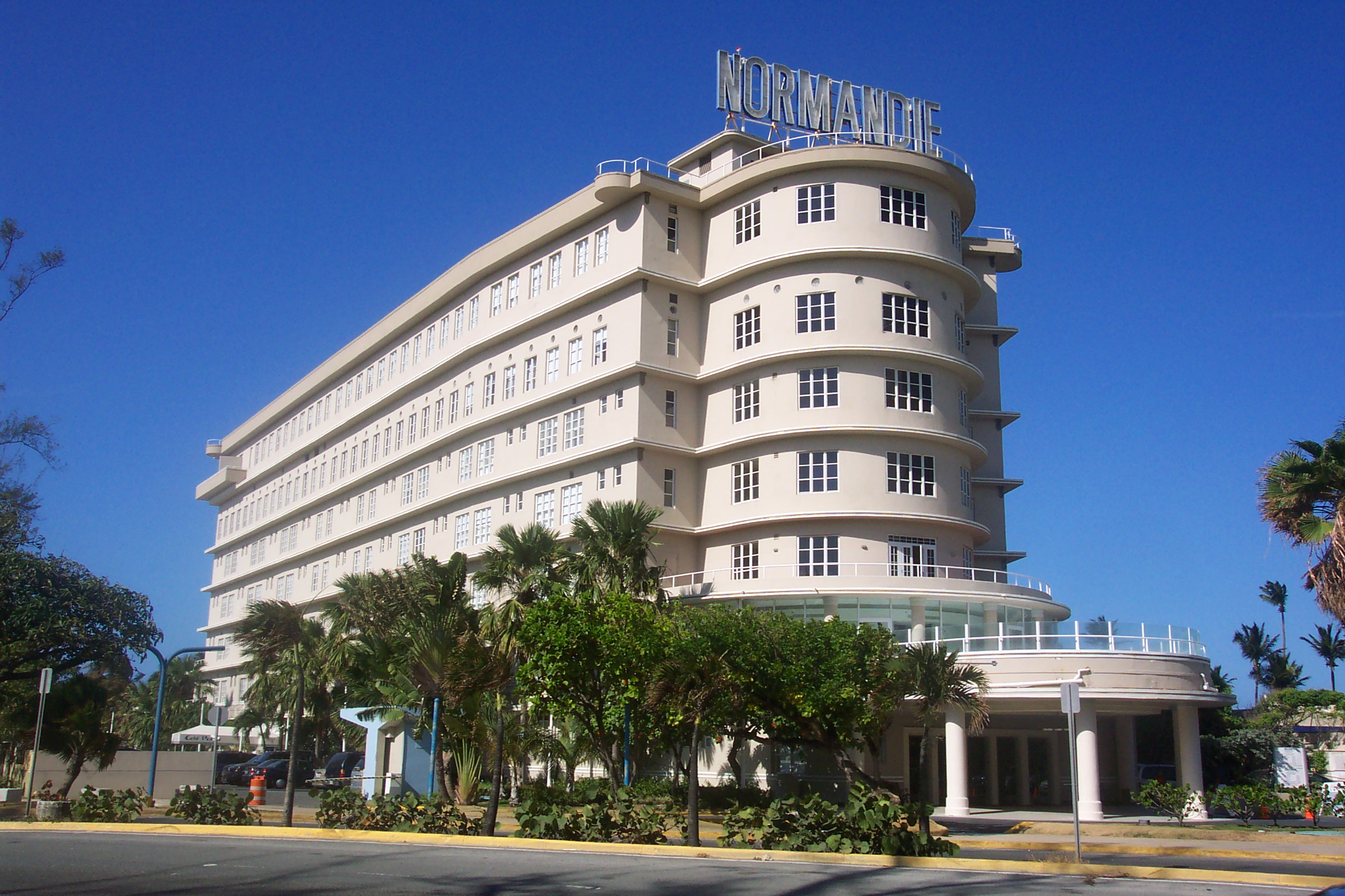 Normandie Hotel as seen from Munoz Rivera Avenue. Picture Author: Javier Rodriguez Galarza, from San Juan, PR.